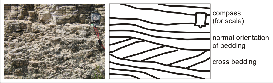 cross-bedded sandstones, eastern Spain Photo and diagram created by Y. Kremer